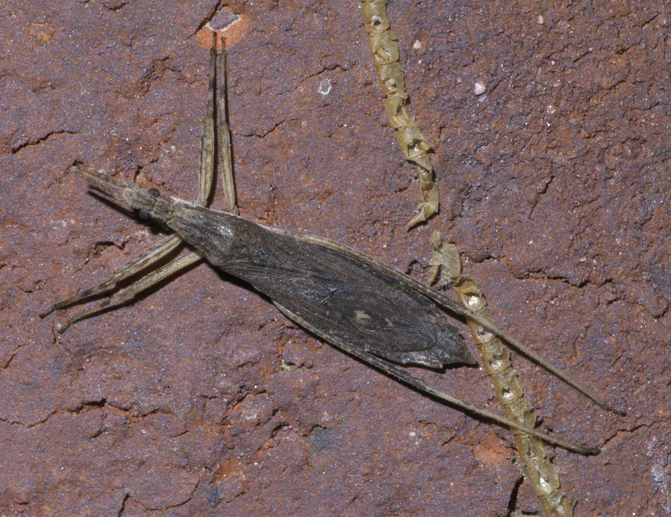 Pygolampis pectoralis, Family: Assassin Bugs, Size: 16 mm, ID Confidence: 98